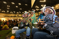 4/10 Sotho Sounds. Photo by: Jacob Crawfurd (7207)